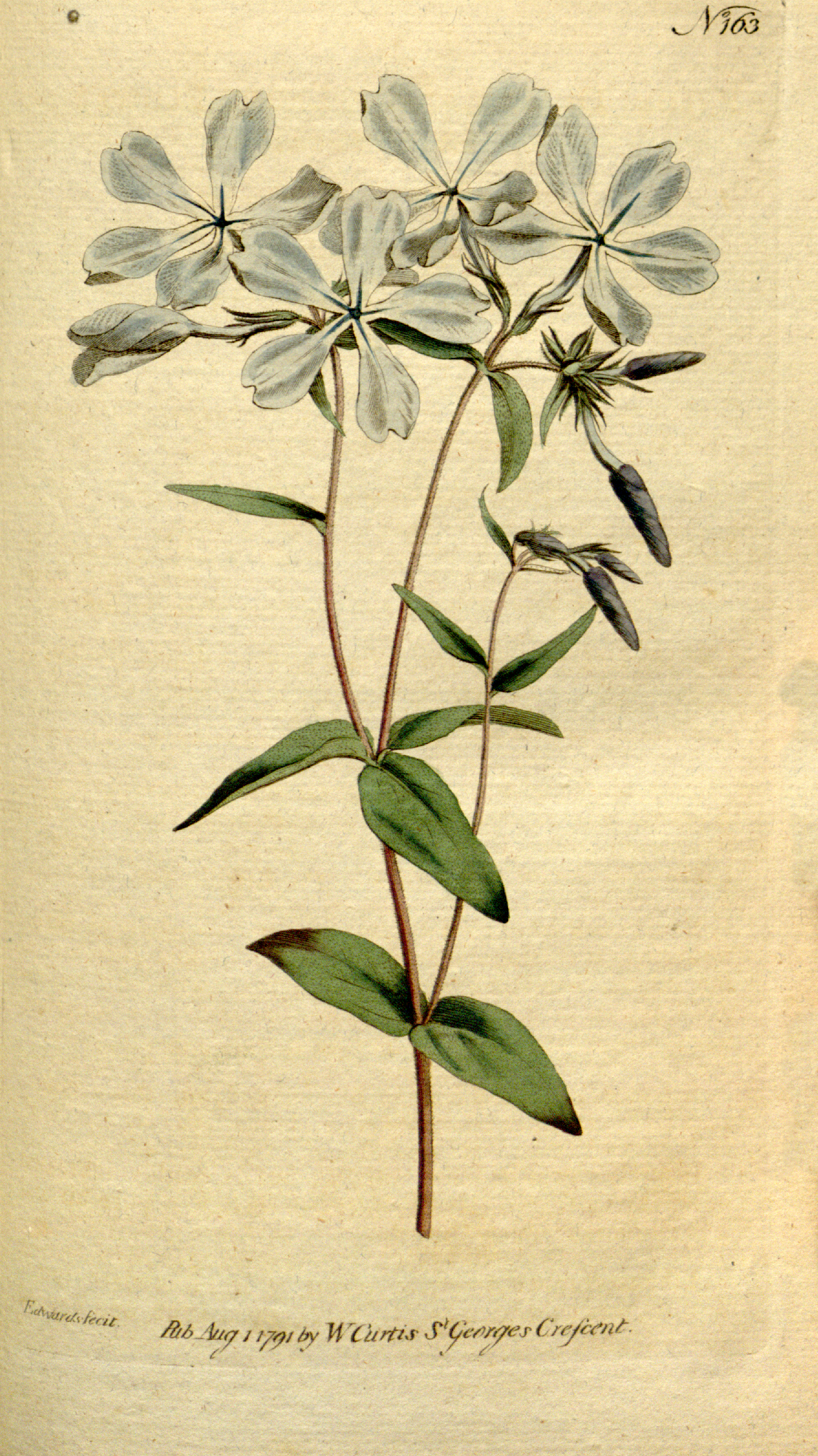 This is a plate from The Botanical Magazine, Volume 5.